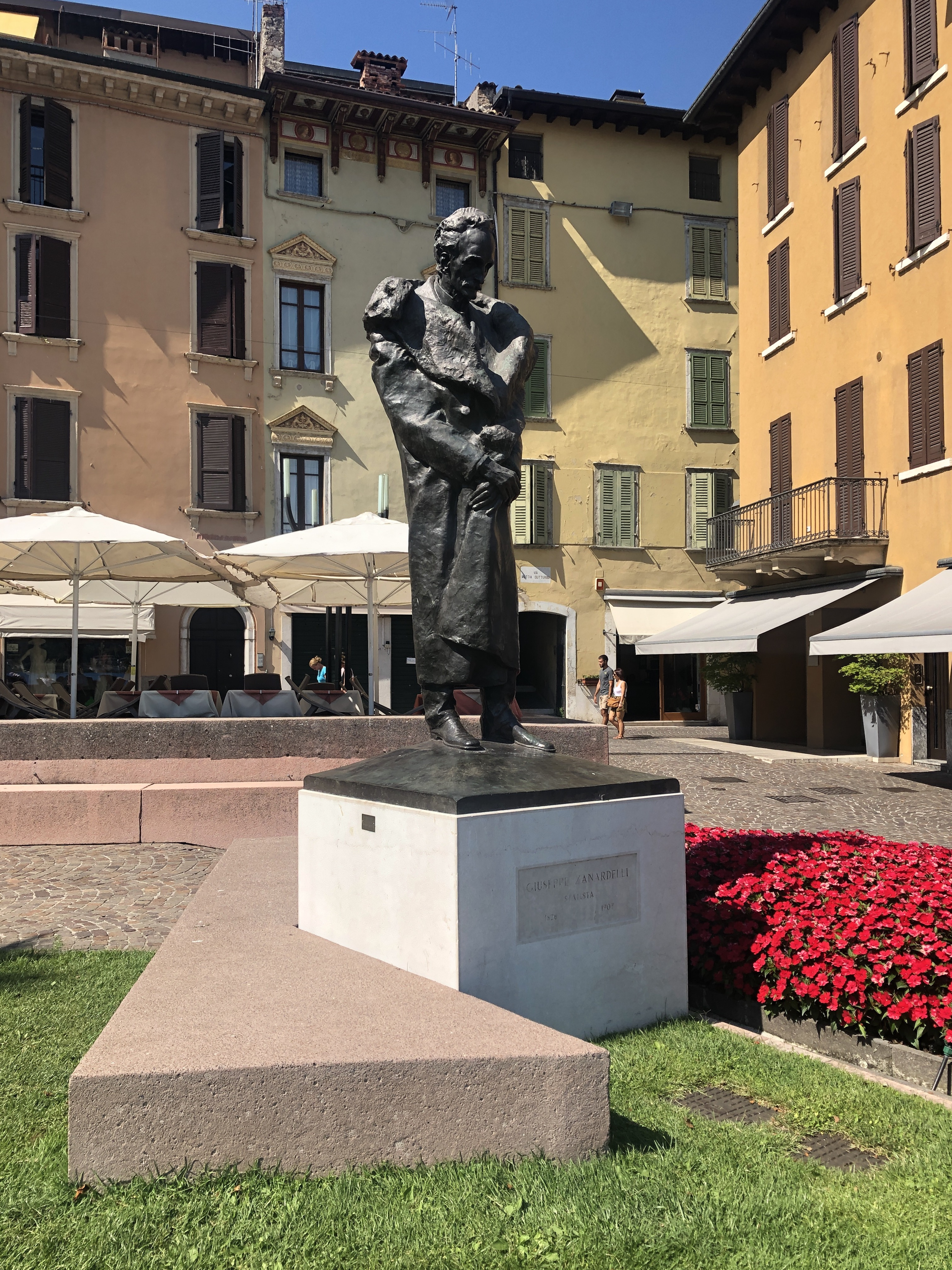 Statue of Giuseppe Zanardelli in Salò